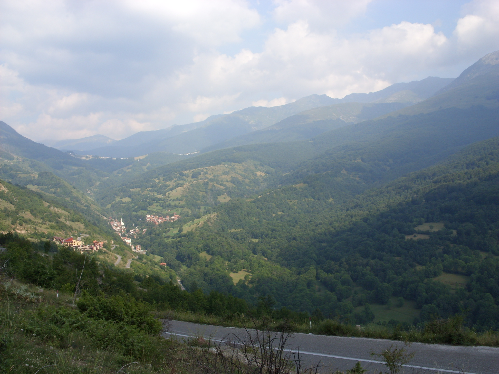 The Šar Mountains near Prizren, Kosovo.